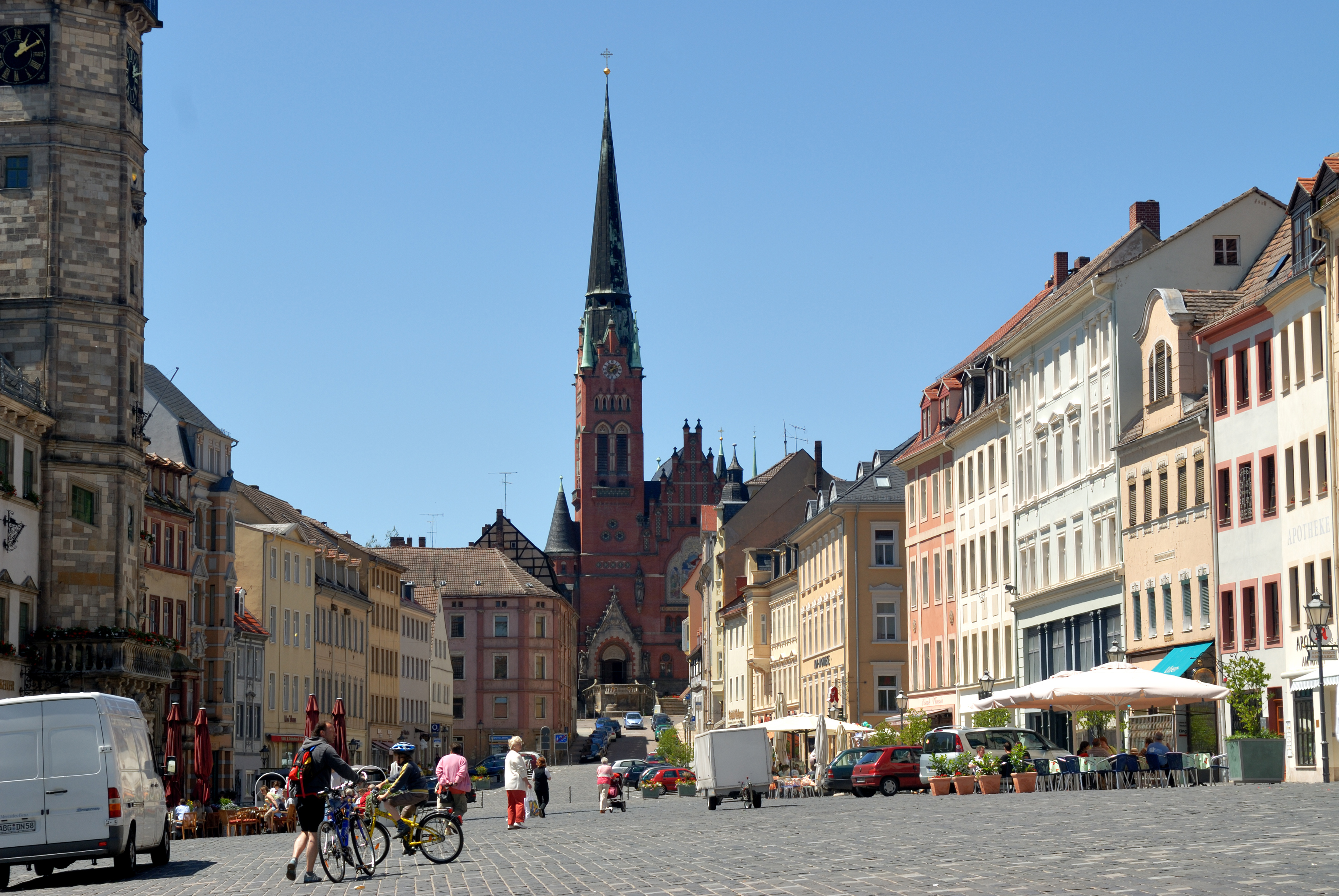 This image shows the market in Altenburg, Thuringia, Germany.